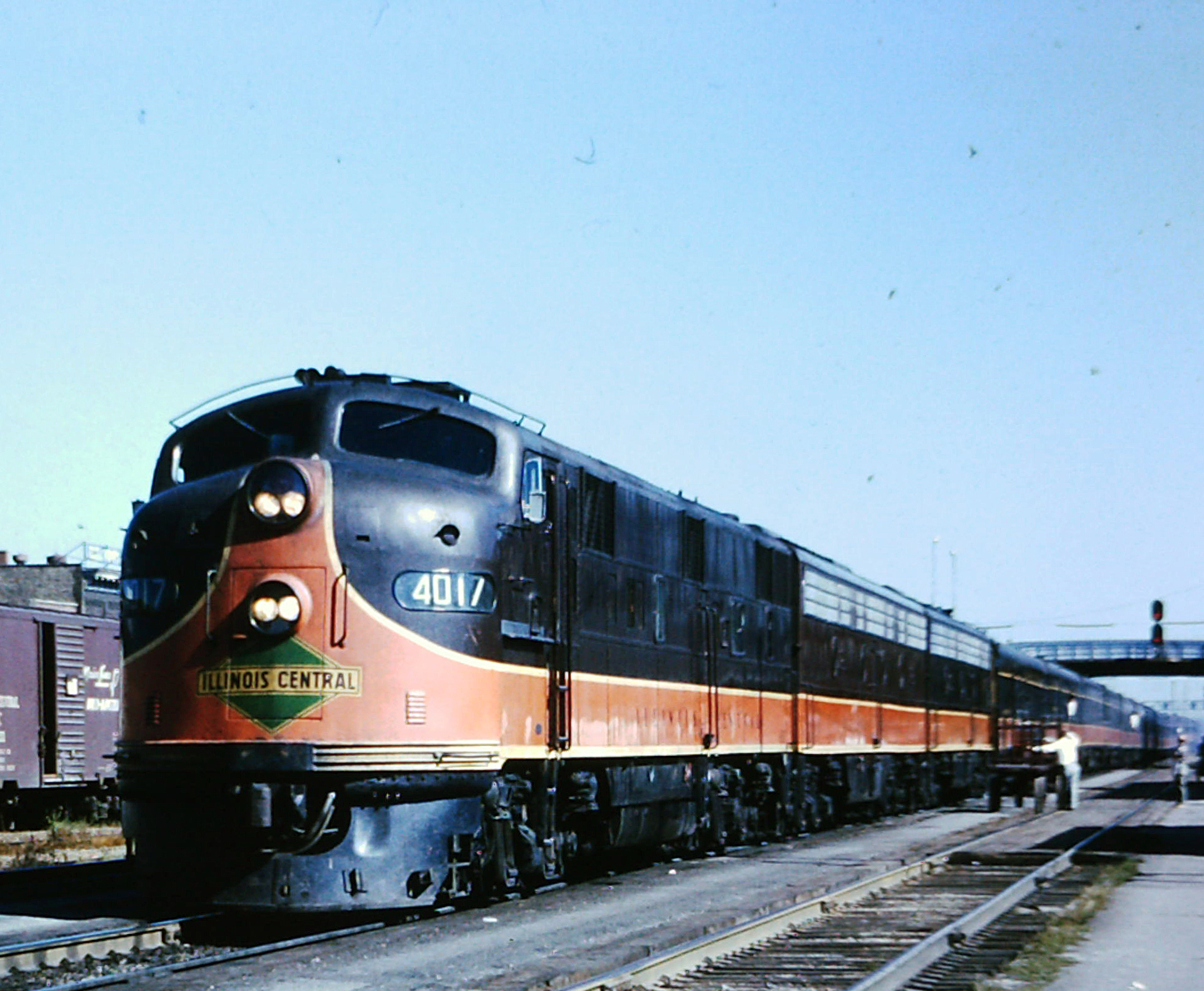 The Illinois Central's City of New Orleans at Kankakee, Illinois. The train is led by EMD E7 #4017.